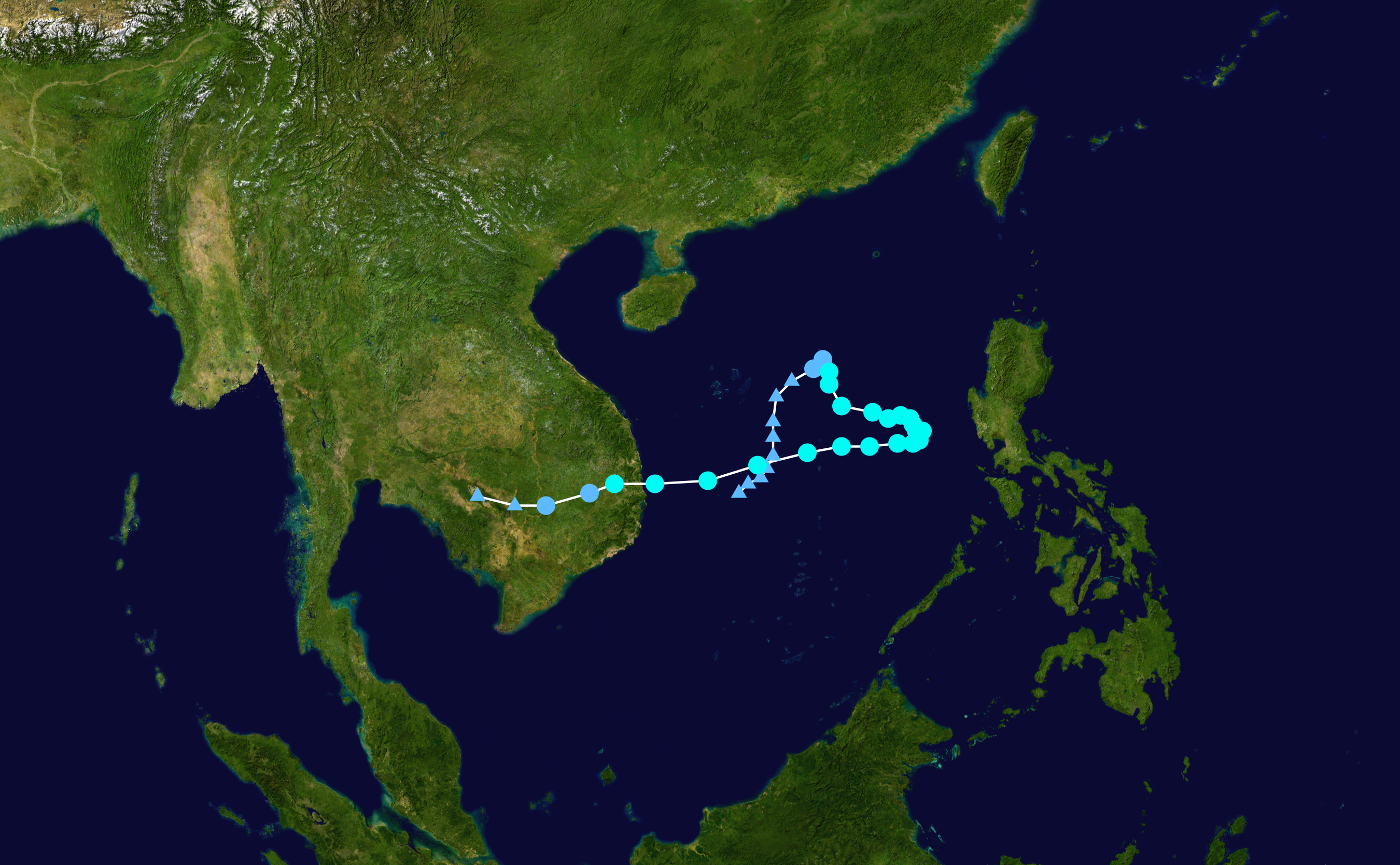 Track map of Severe Tropical Storm Gaemi of the 2012 Pacific typhoon season. The points show the location of the storm at 6-hour intervals. The colour represents the storm's maximum sustained wind speeds as classified in the Saffir–Simpson scale (see below), and the shape of the data points represent the nature of the storm, according to the legend below. Saffir–Simpson scale Tropical depression≤38 mph≤62 km/h Category 3111–129 mph178–208 km/h Tropical storm39–73 mph63–118 km/h Category 4130–156 mph209–251 km/h Category 174–95 mph119–153 km/h Category 5≥157 mph≥252 km/h Category 296–110 mph154–177 km/h Unknown Storm type Tropical cyclone Subtropical cyclone Extratropical cyclone / Remnant low / Tropical disturbance / Monsoon depression